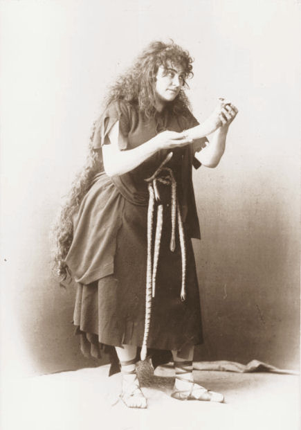 Soprano Amalie Materna as Kundry in Wagner's Parsifal at Bayreuth in 1882.